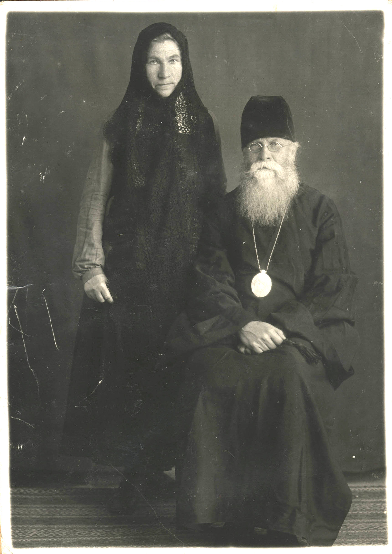 Митрополит Иосиф (Петровых) с сестрой Клавдией Шишуновой. Чимкент. 1933 год